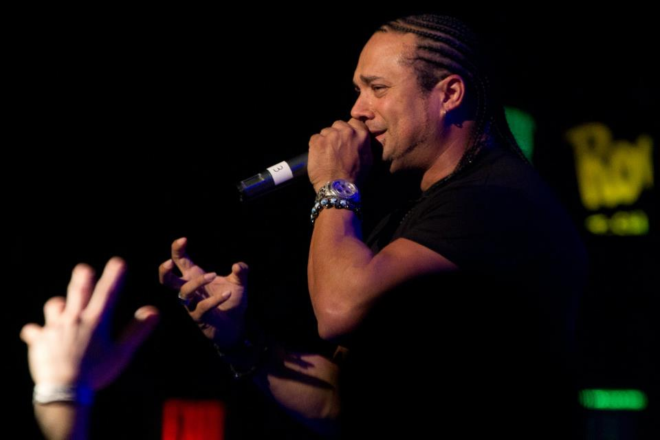 This is a photo of Chino XL performing live at Toad's Place in New Haven, CT